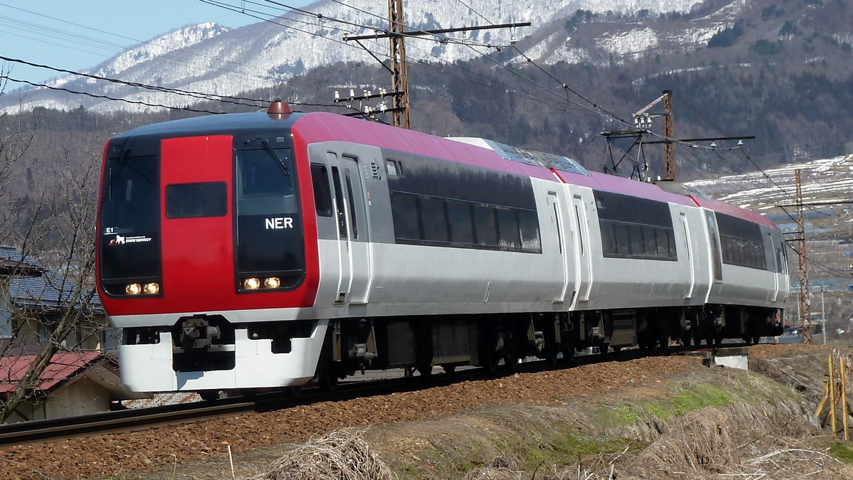 Nagano Electric Railway 2100 series EMU set E1 near Shinano-Takehara Station